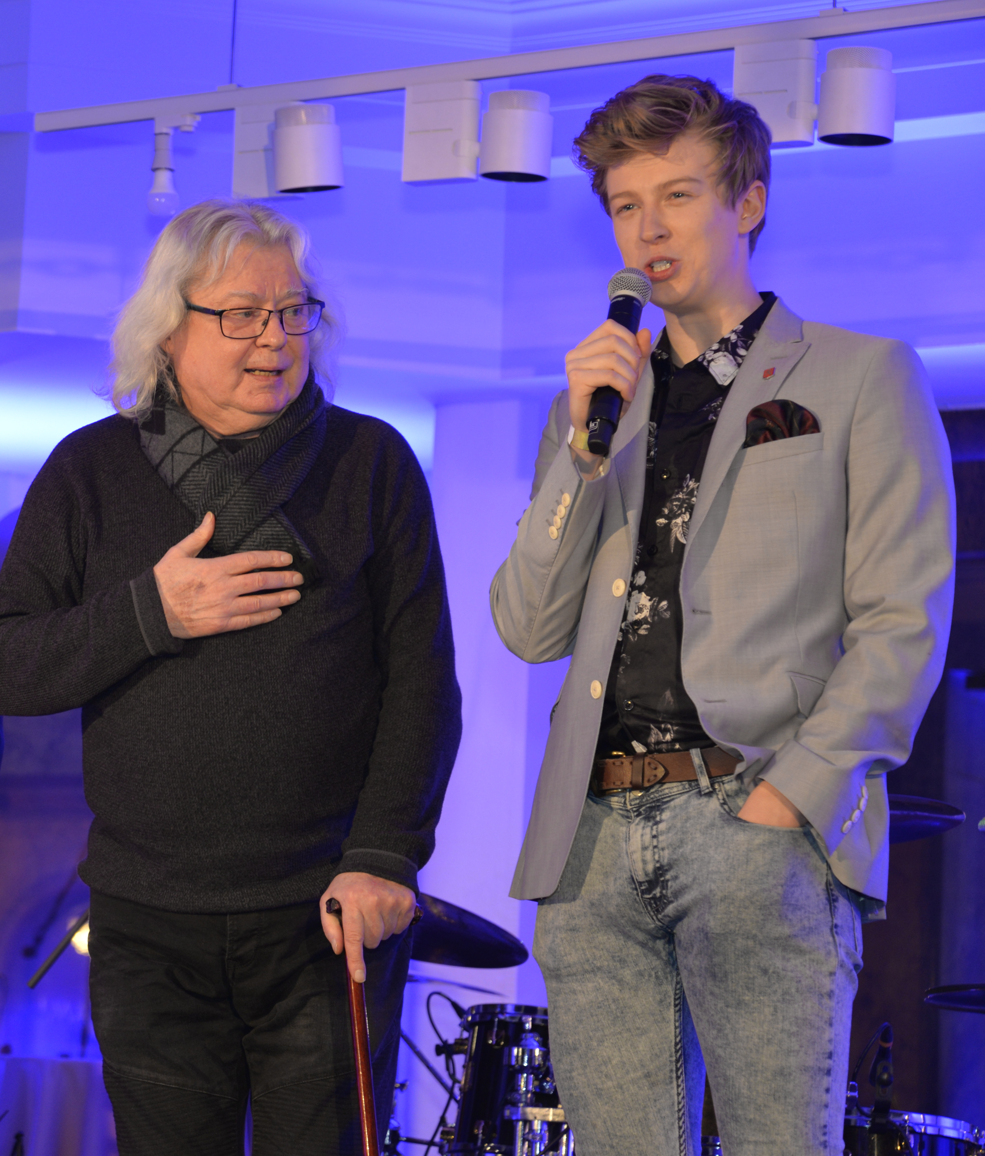 Final part of presidential campaign of Jiří Drahoš in Lucerna Cinema